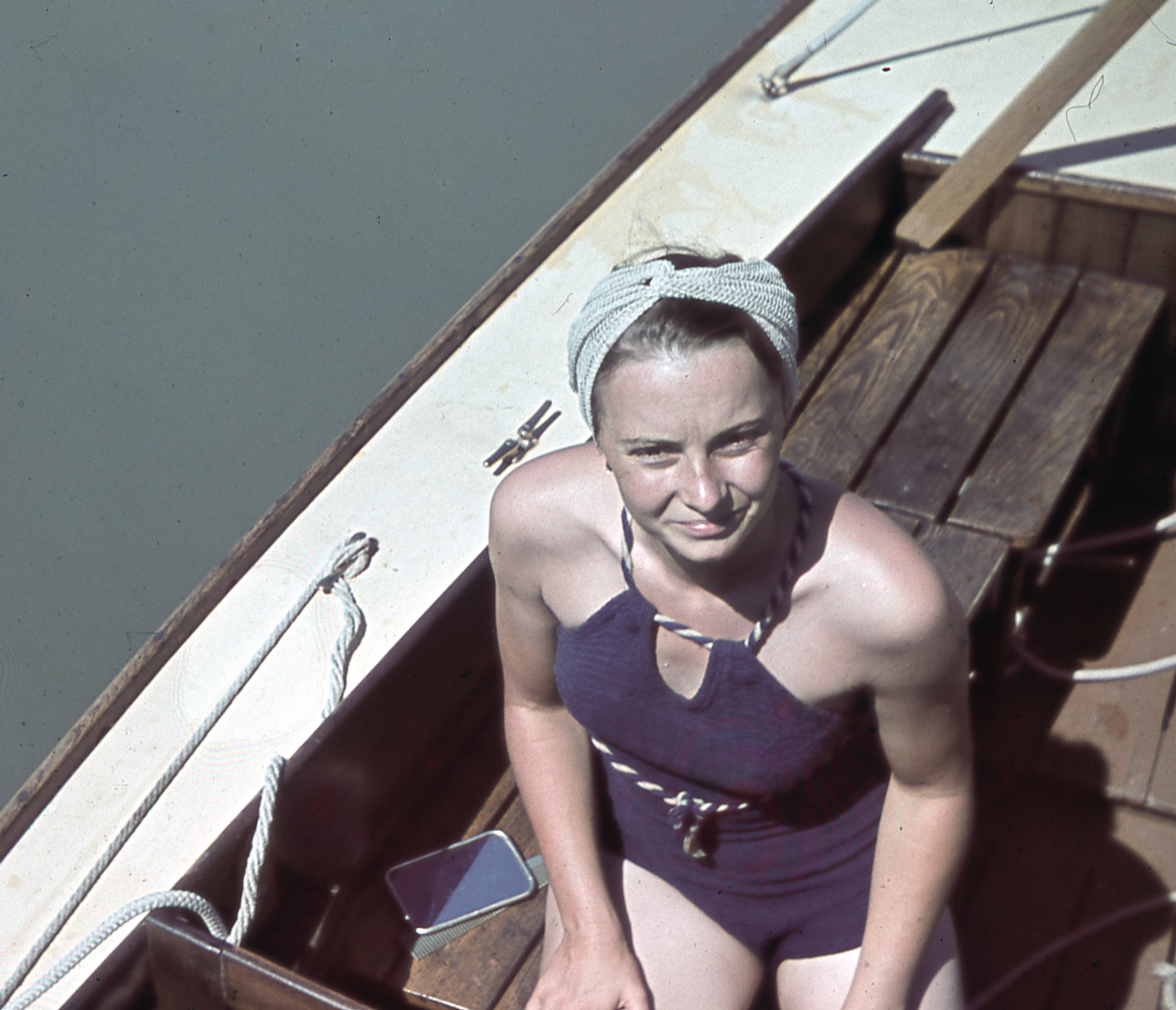 Hungary This Agfacolor photo (invention from 1936) was not colorized. Tags: colorful, portrait, woman